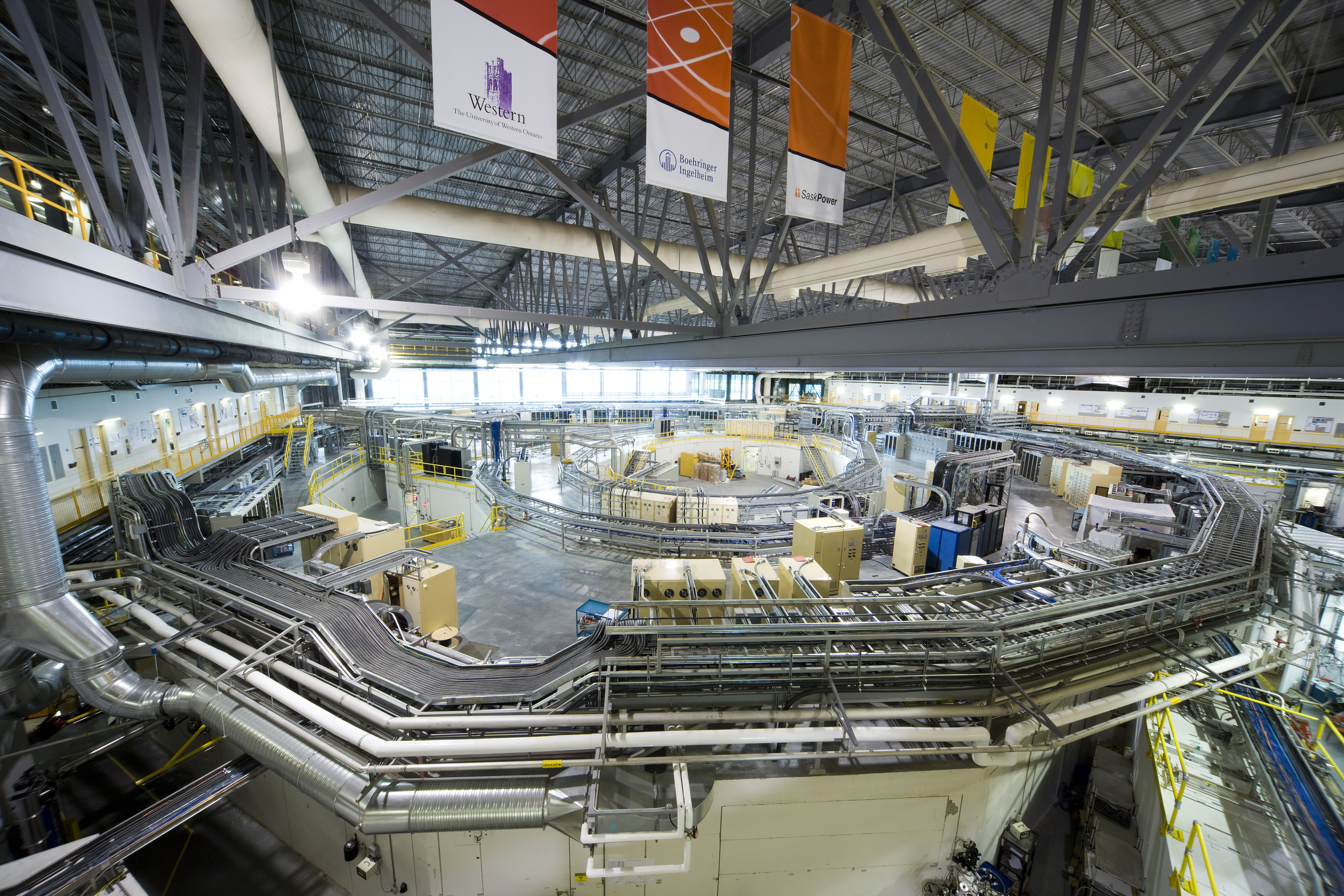 The Canadian Light Source synchrotron